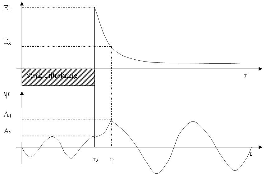 Quantum Tunneling and the Coulumb barrier. Norwegian text